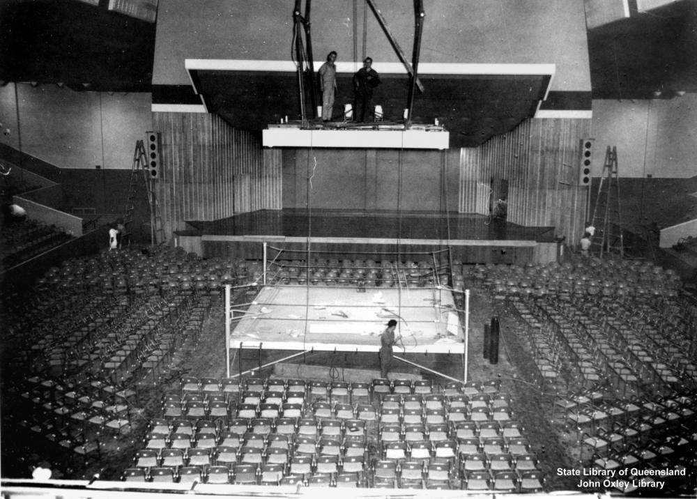 Festival Hall, Brisbane. Interior view of Festival Hall being readied for a boxing? tournament. Festival Hall was built by the Queensland Government in Brisbane in 1959. It was big enough to host ballets, boxing matches, rock concerts, and even roller-derbies. It attracted touring acts from Australia and abroad who would have otherwise have not visitied Brisbane. It was demolished in 2003.